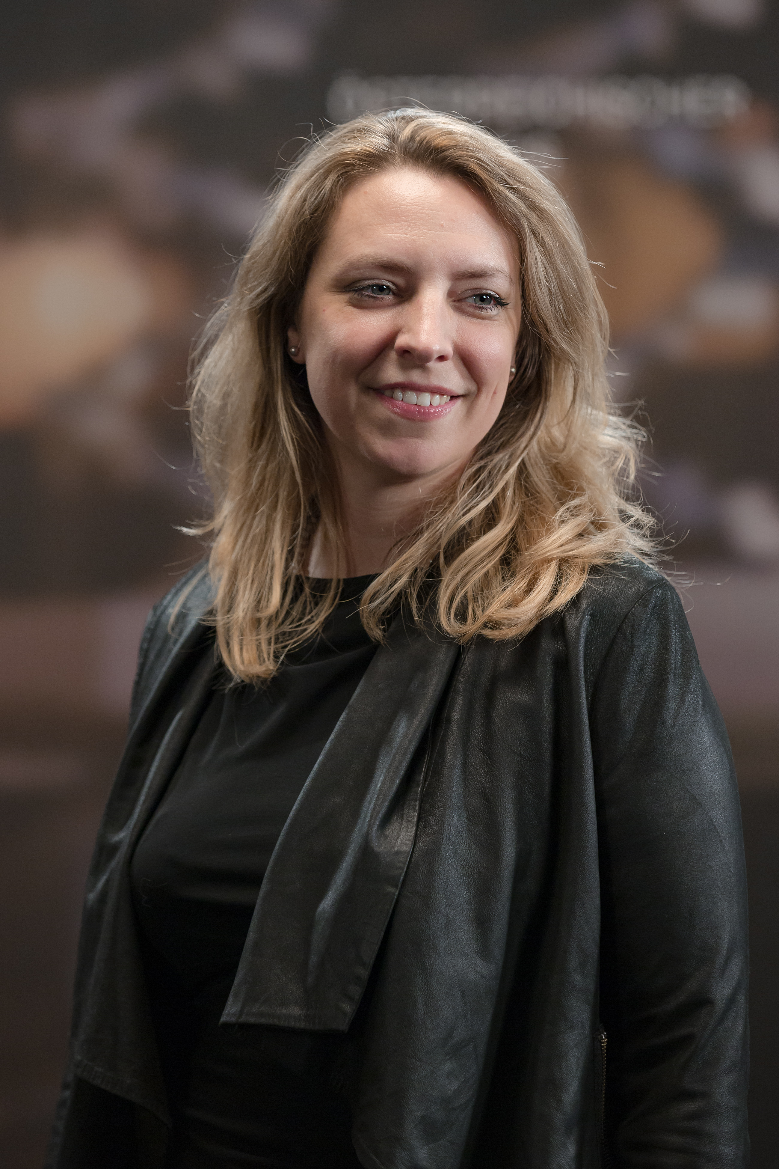 Karin C. Berger, producer of Kinders, at the Austrian Film Awards 2017 (Rathaus, Vienna,Austria).